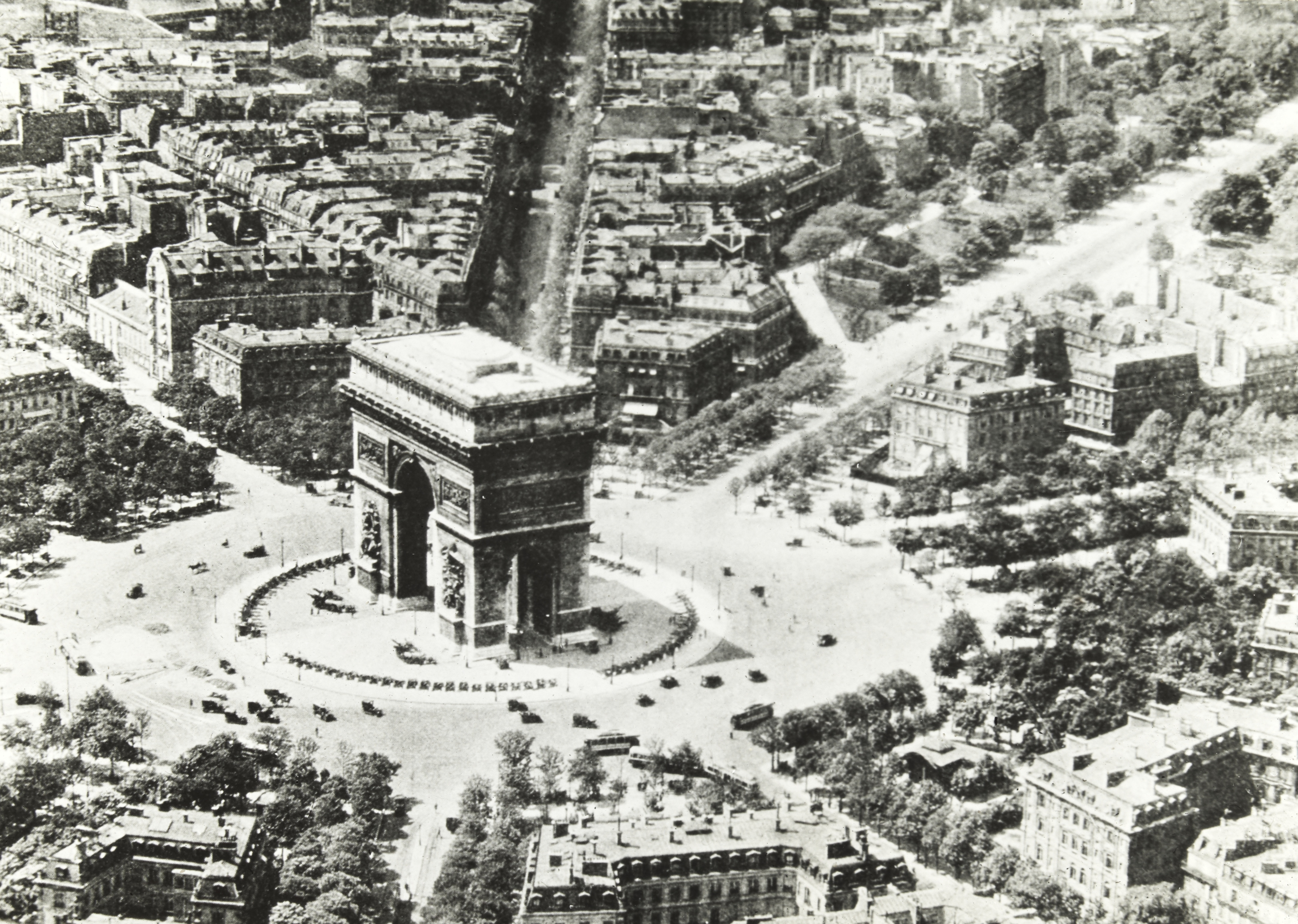 Shows the Arc de Triomphe in the centre of star of radiating avenues.